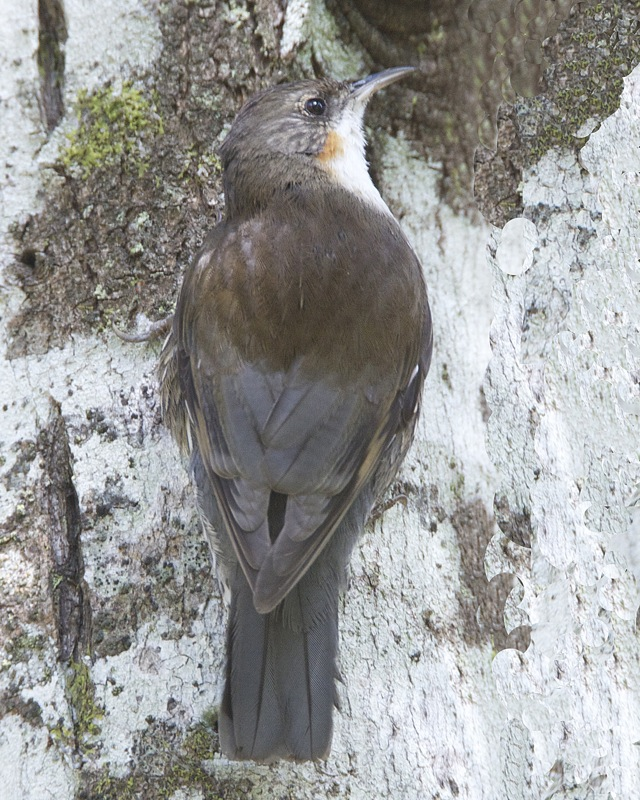 White-throated Treecreeper - female The female in this species is more colourful than the male Cormobates leucophaea Nominate race, Cormobates leucophaea leucophaea Great Otway National Park, Victoria, Australia Habitat: temperate rain forest 21st. September 2009 Distribution